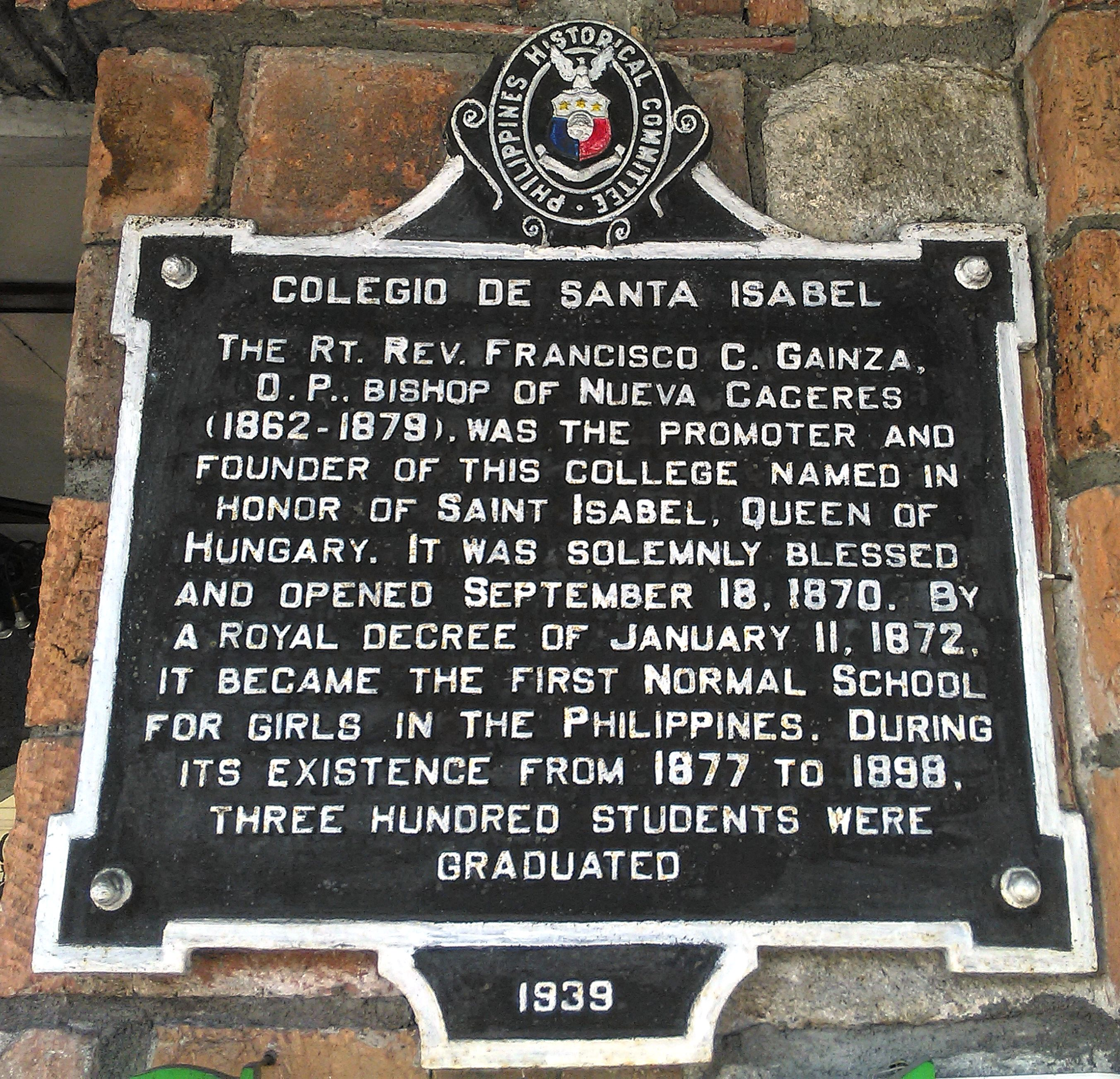 Historical marker of Colegio de Santa Isabel in Naga City, Laguna